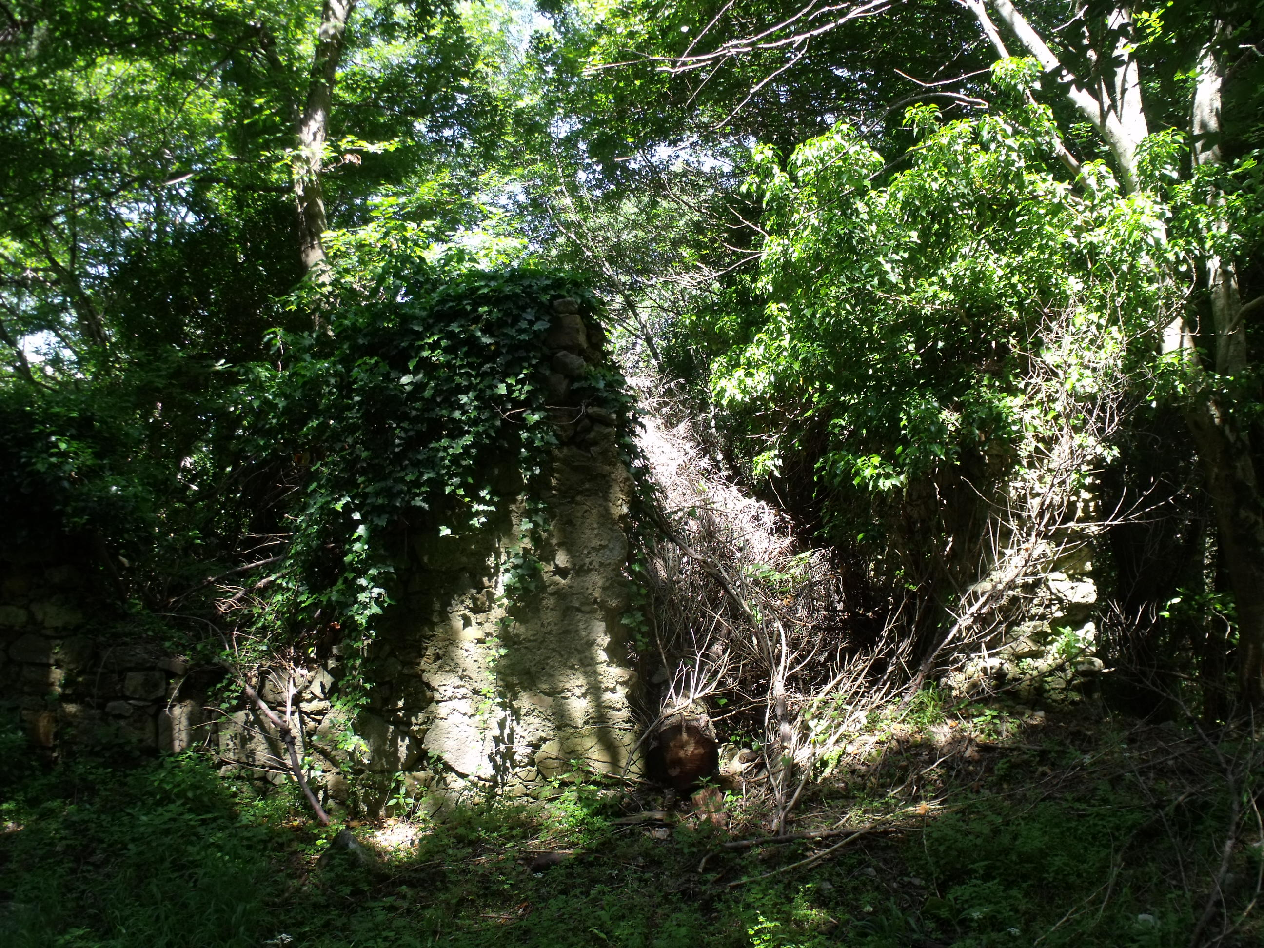 Ruins of the Ex-Church and Ex-Pieve San Nicola di Bari of the Castle Rocca Silvana near Selvena, Castell’Azzara, Monte Amiata Area, Province of Grosseto, Tuscany Italy